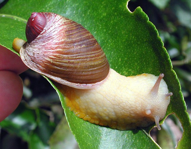 Photo of live Amphibulima patula dominicensis